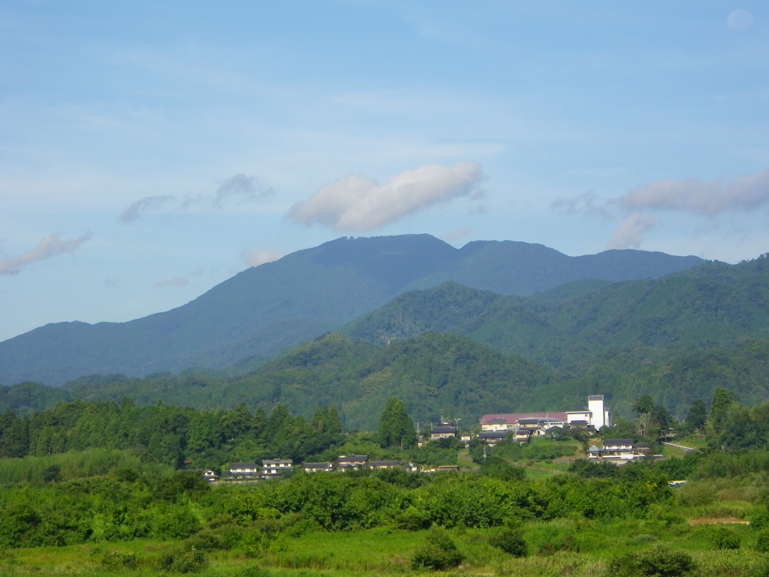 Mount Mitake (Mitake-san) as seen from the east in Fukuchiyama, Kyoto Prefecture, Japan.